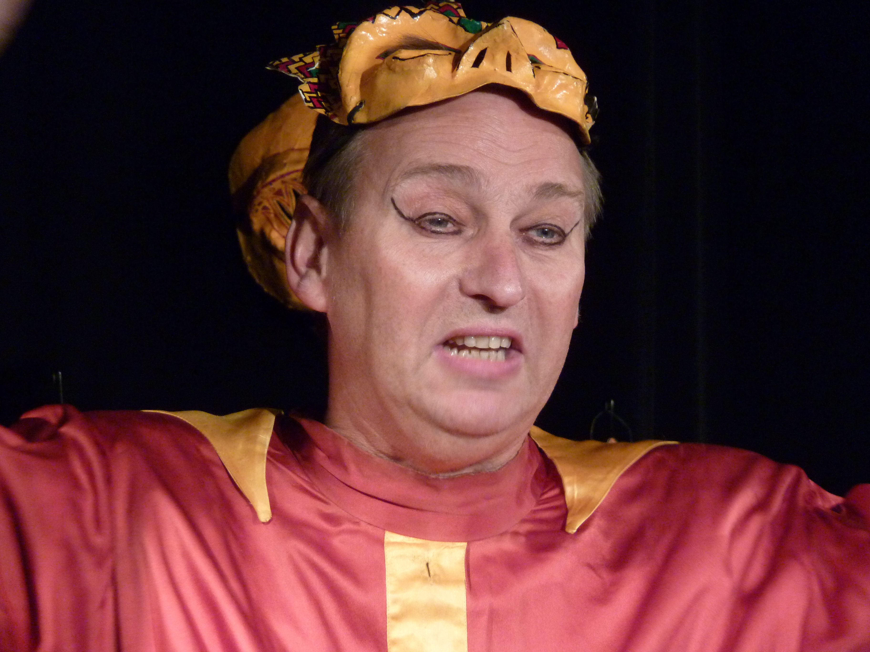 Actor and Comedian Bernd Lafrenz at a performance in Ludwigsburg 2011